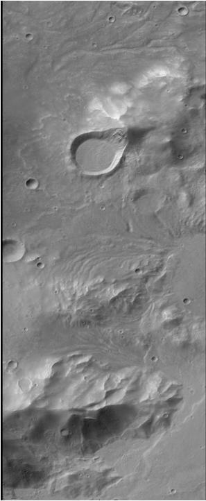 Ausonia Montes in Mare Tyrrhenum. Location is 26 degrees south latitude and 261.06 degrees west longitude. Image was taken with the CTX on MRO. MRO is operated by JPL. CTX is operated by Malin Space Science Systems. MRO CTX data acces is provided by Arizona State University. Picture credit is Malin Space Science Systems/NASA.